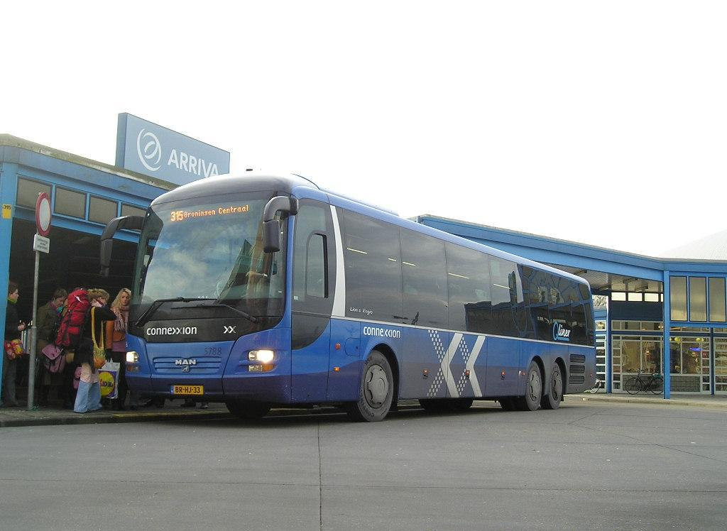 MAN Lion's Regio L bus (#5788) in Heerenveen, Netherlands.